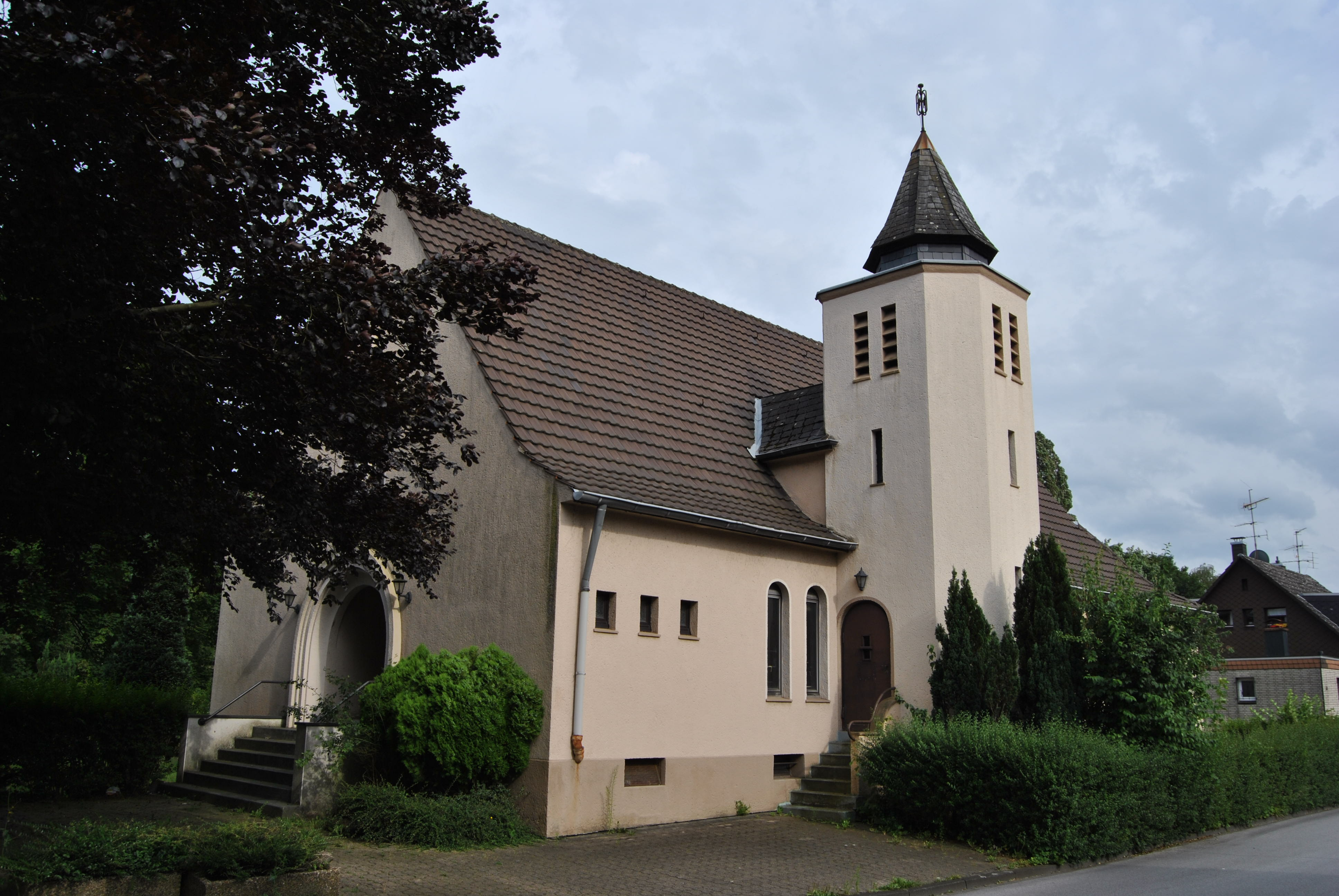 This photograph was taken with a Nikon D3000 This image shows a heritage building in Germany, located in the North Rhine-Westphalian city Duisburg. Evangelische Kirche in der Siedlung Bissingheim - Denkmalliste Duisburg, Teil des Denkmalbereichs Nr. 2 - Koordinaten: 51.23'35.92"N, 6.48'52.78"E, Blickrichtung SE